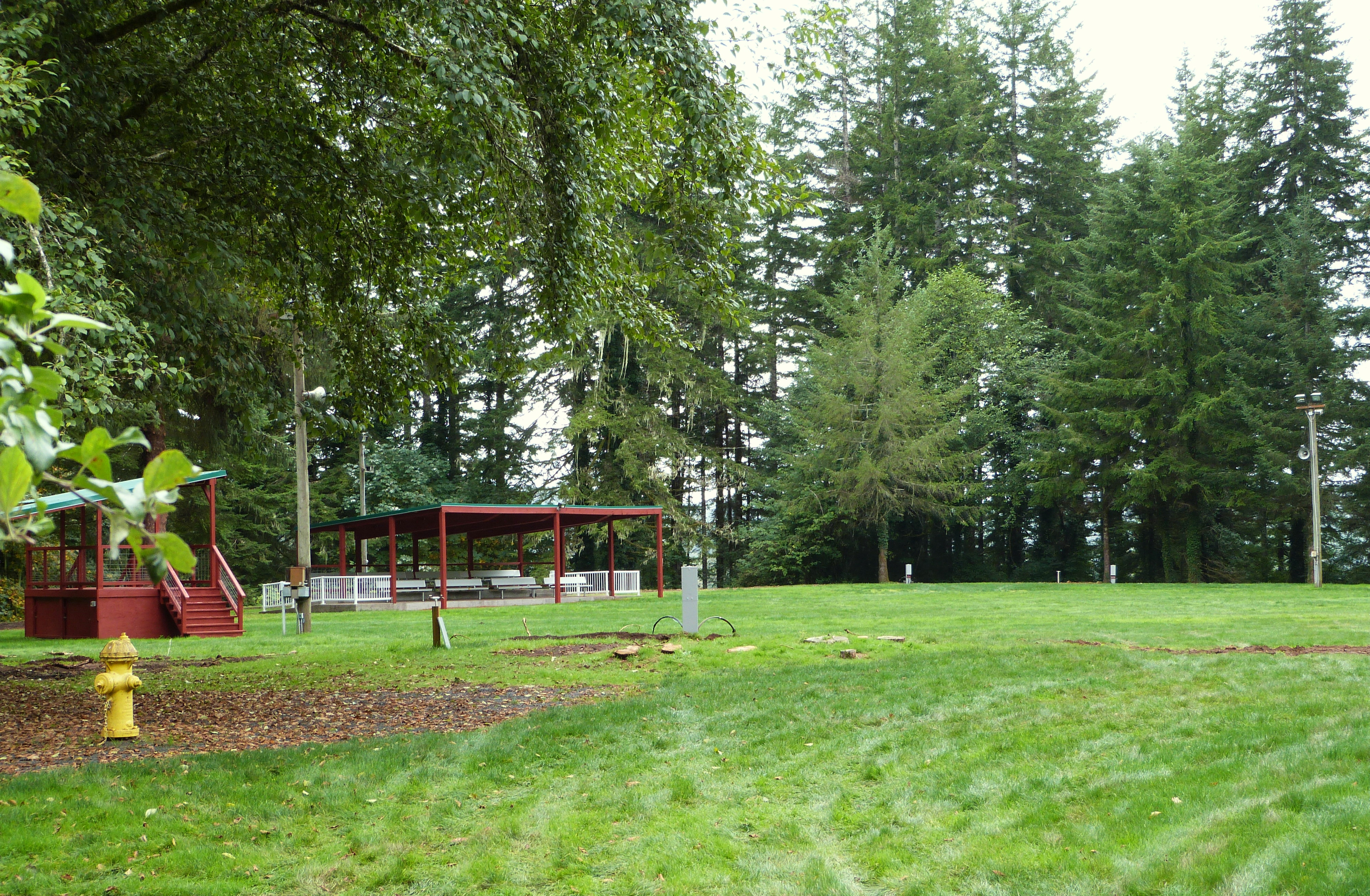 The Pauline Ricks Memorial Pow-Wow Grounds occupy a portion of the former Siletz Indian Agency at Government Hill in Siletz, Oregon, United States. Government Hill, identified as Siletz Agency Site, is listed on the US National Register of Historic Places.